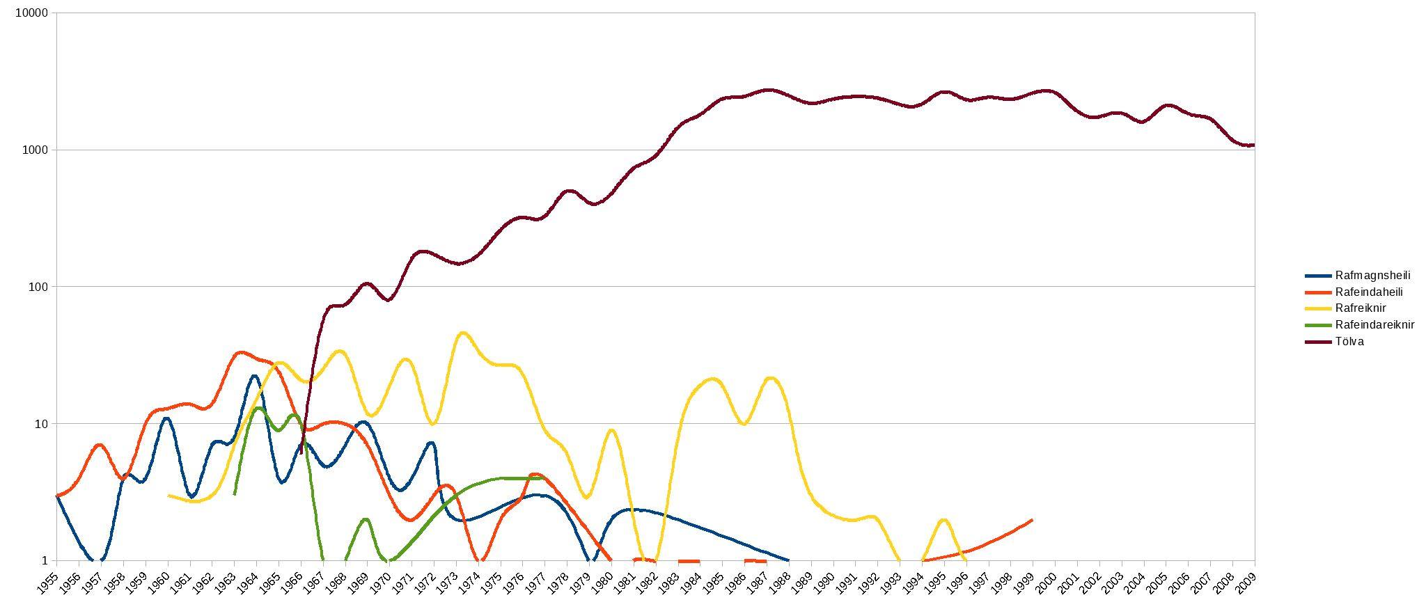 A graph of Icelandic words for "computer" over the years as found on the historical newspaper site timarit.is